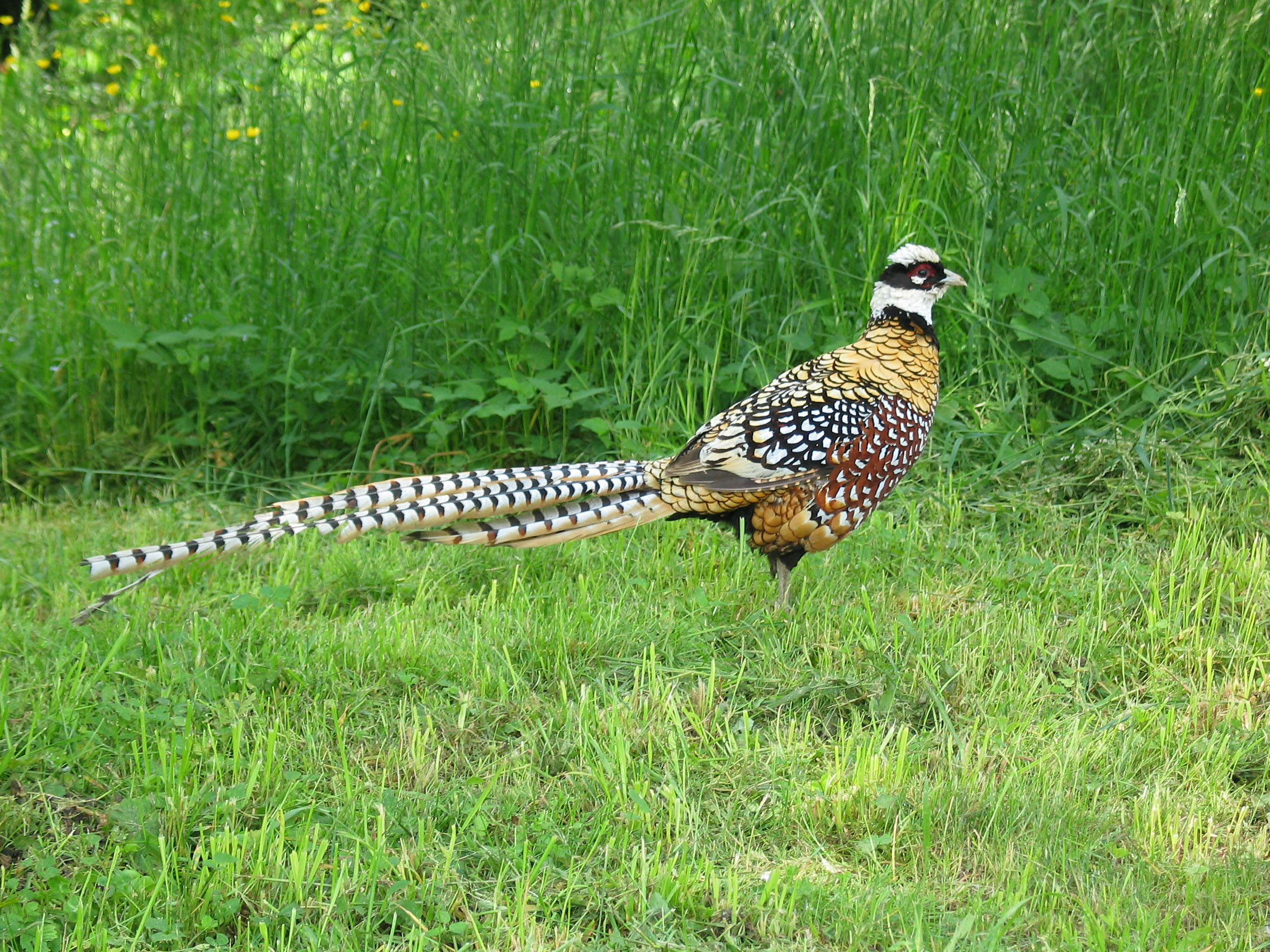 Reeves's Pheasant, picture shot near Scharten, a village Upper Austria.